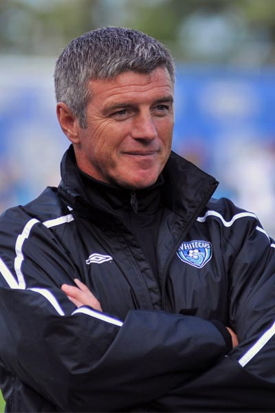 Photo of soccer player and coach, Colin Miller. Wilson Wong photo.